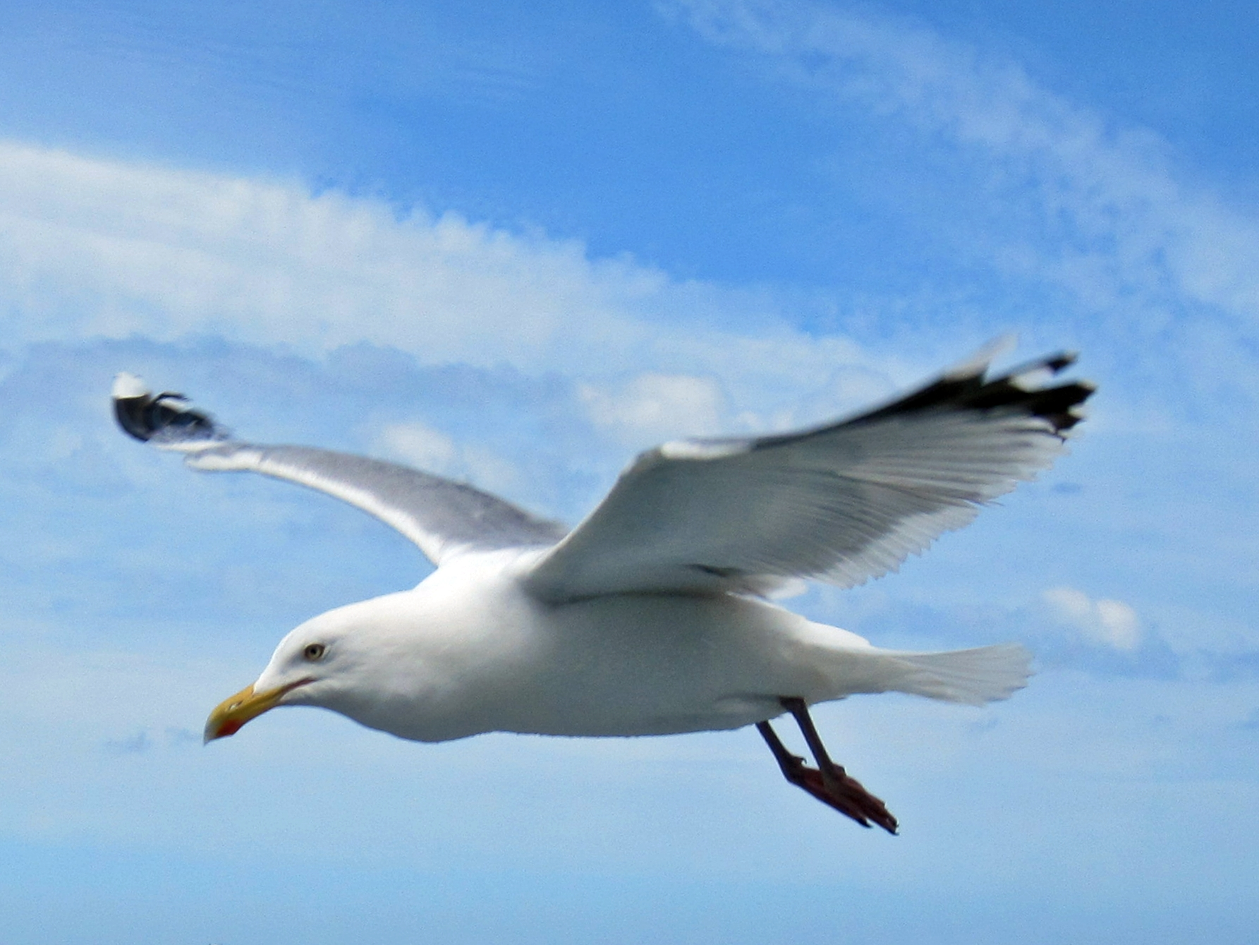 Larus argentatus (European Herring Gull), near Terschelling, the Netherlands